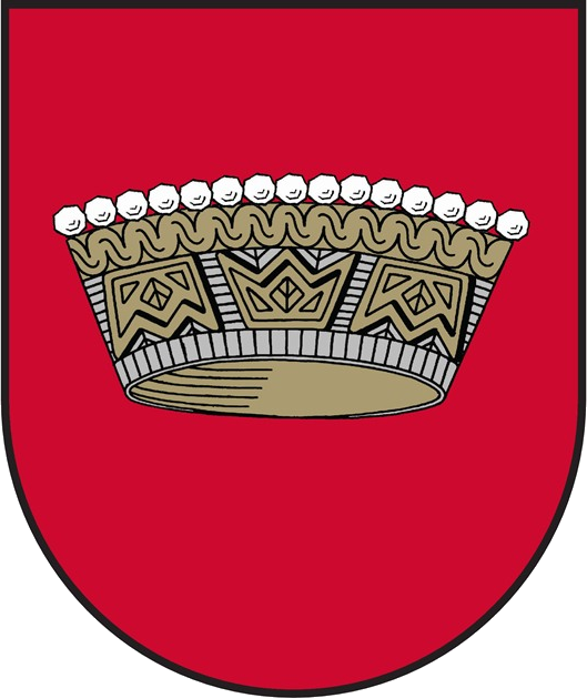 Coat of arms of Nīca Municipality